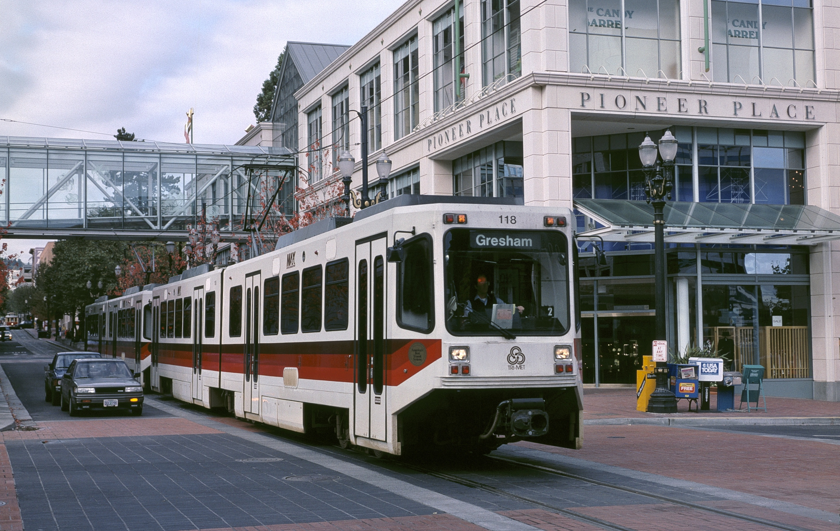 A two-car train of TriMet "Type 1" MAX cars (light rail vehicles) eastbound on SW Yamhill Street at 4th Avenue in downtown Portland (Oregon), leaving the Pioneer Place MAX station, which was opened in 1990, when Pioneer Place mall opened. TriMet's first series of light rail cars were built in the mid-1980s by Bombardier and entered service with the opening of the MAX system, in 1986. Until 1996, this was the only type of light rail car in TriMet's fleet, and this group was designated "Type 1" only after TriMet acquired a second, different type in the 1990s. In the distance, a "Vintage Trolley" can just be seen, making an early test or training run (before the start of Portland's Vintage Trolley service).